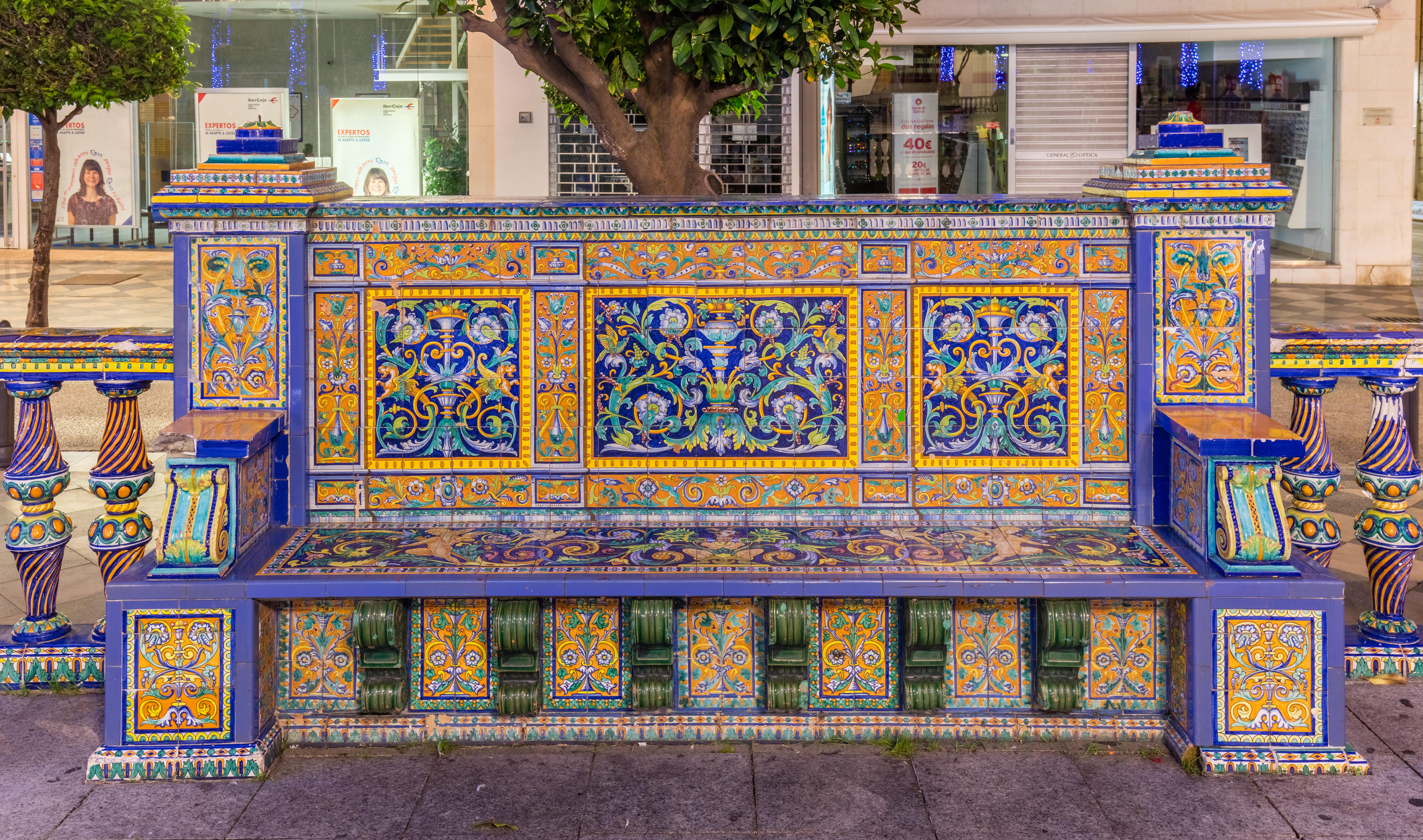 Bench in Plaza Alta, Algeciras, Cádiz, Spain